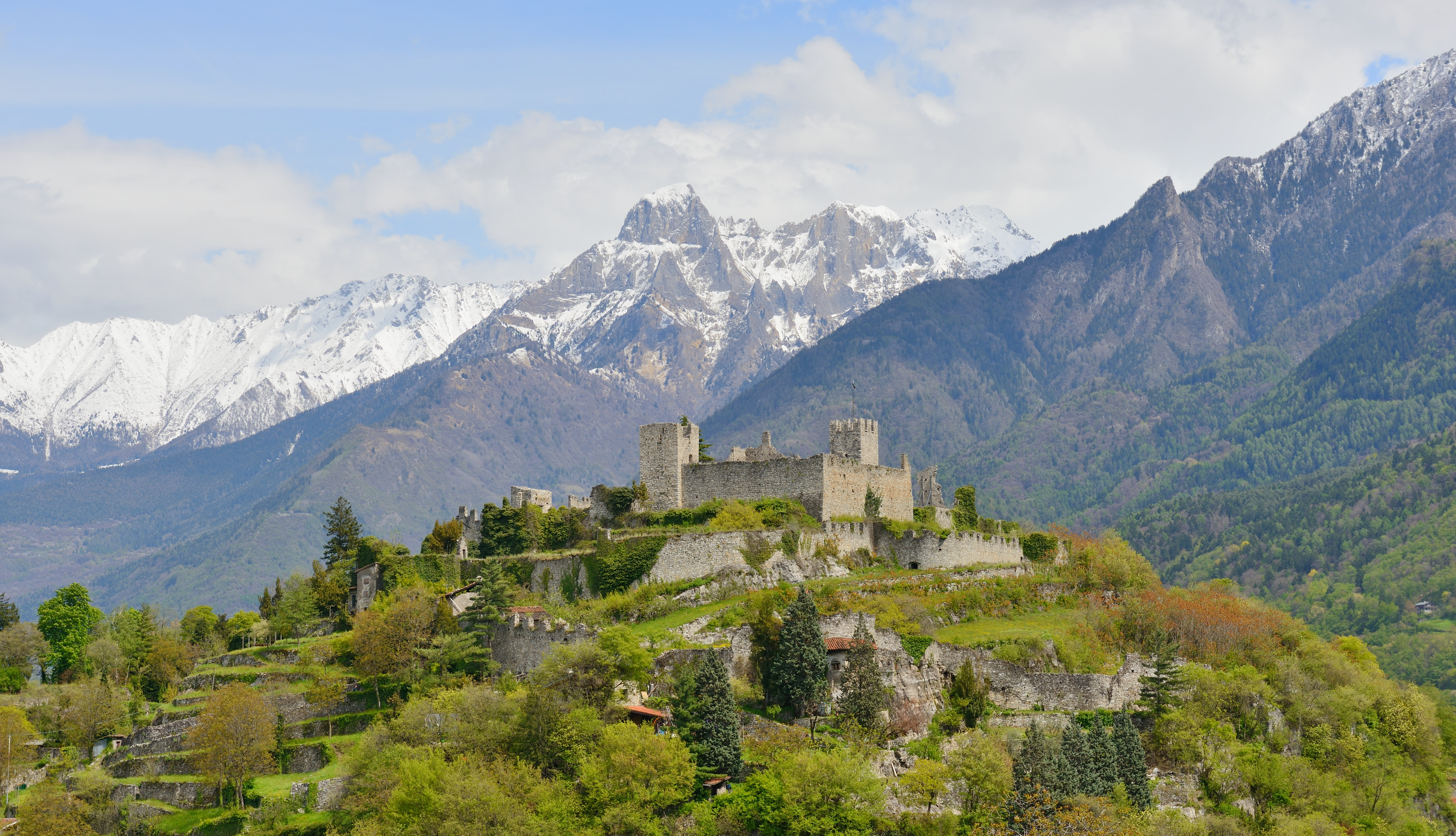 Castle of Breno, Val Camonica